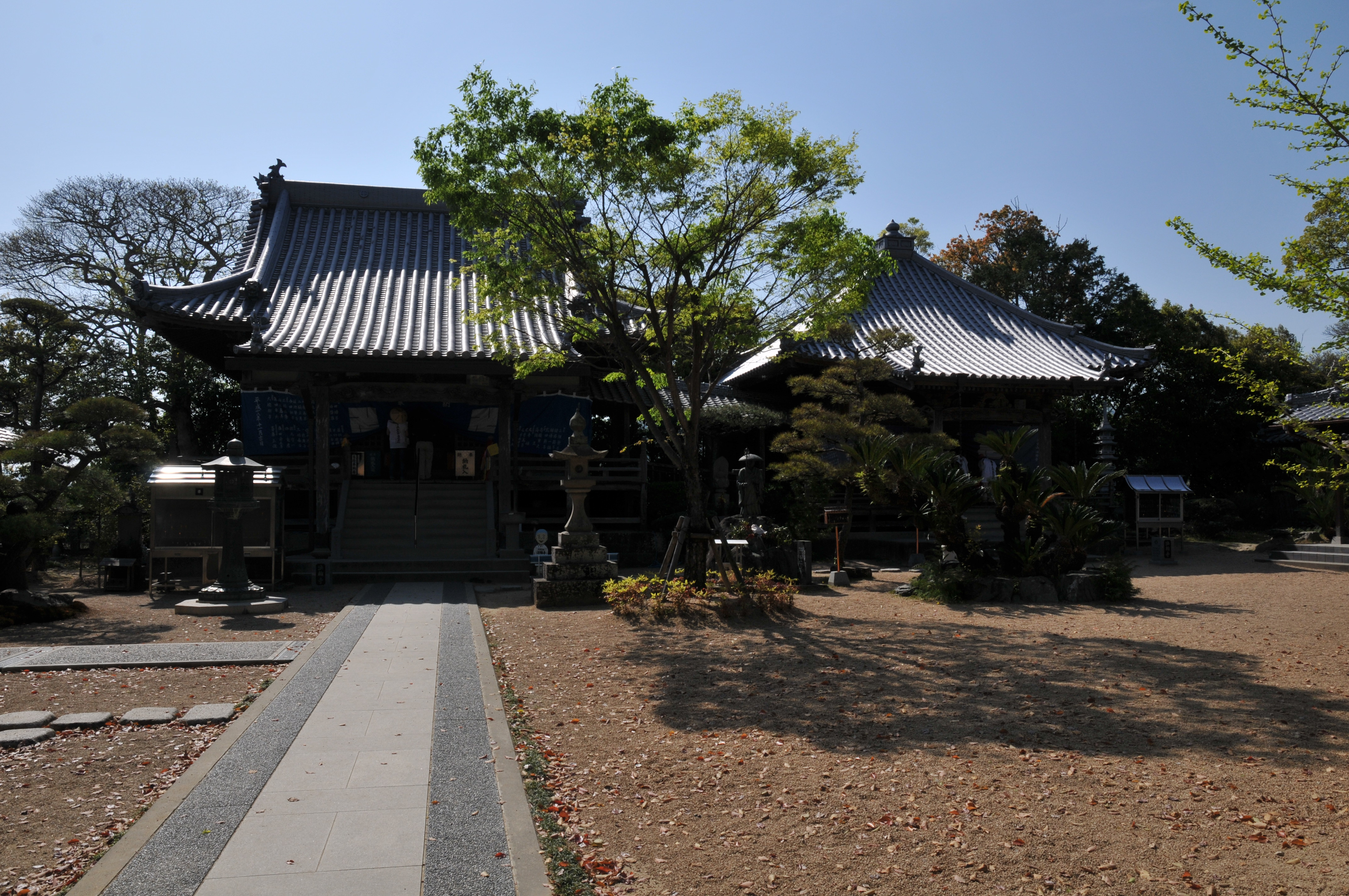 Main temple(left) and Daishi-dō, Horin-ji